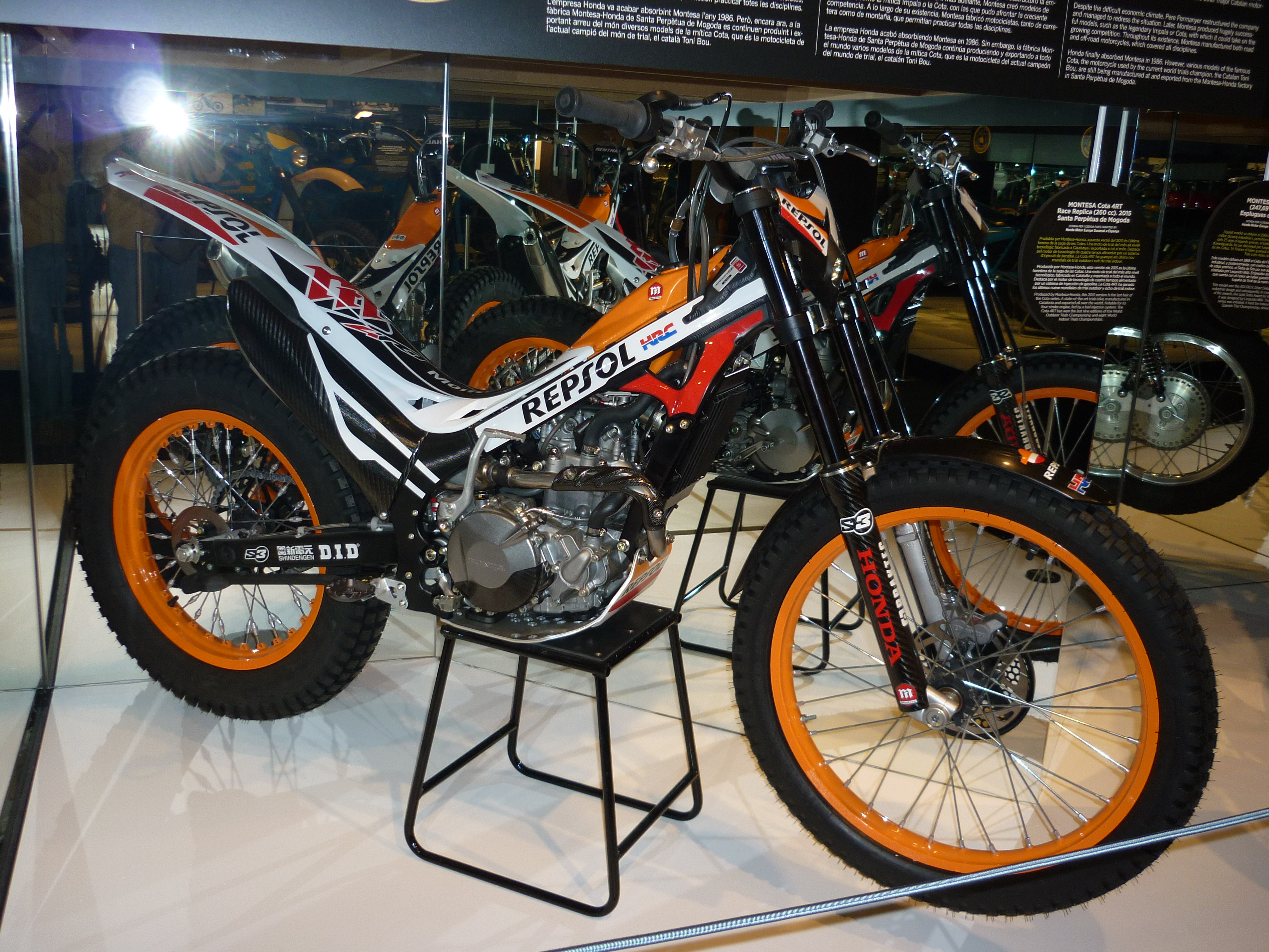 Montesa Cota 4RT Race Replica (260 cc), 2015